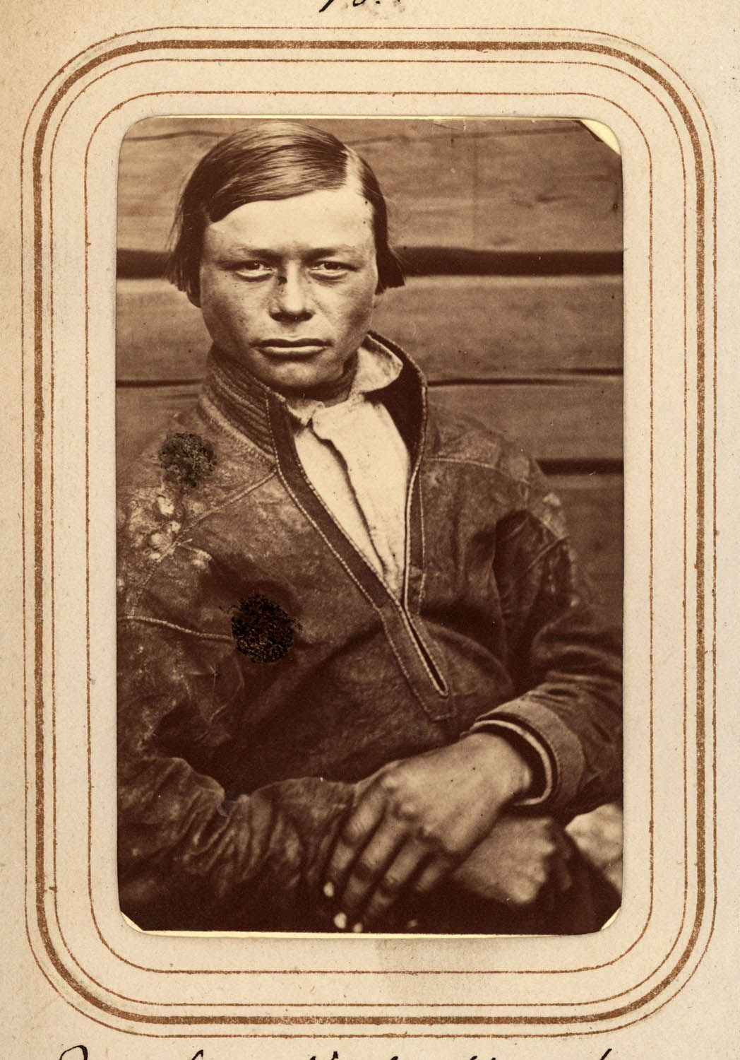 Depicted person: Pava Lars Nilsson Tuorda